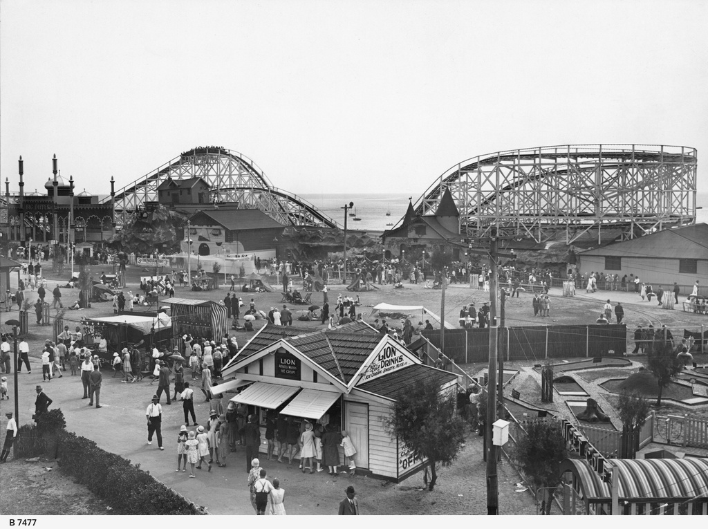 Colley Reserve and the newly opened (in 1930) Luna Park on the foreshore at Glenelg. The big dipper, mini golf, ice cream kiosk and the tracks for a miniature railway can be seen in the reserve. The crowds are enjoying the festive surroundings